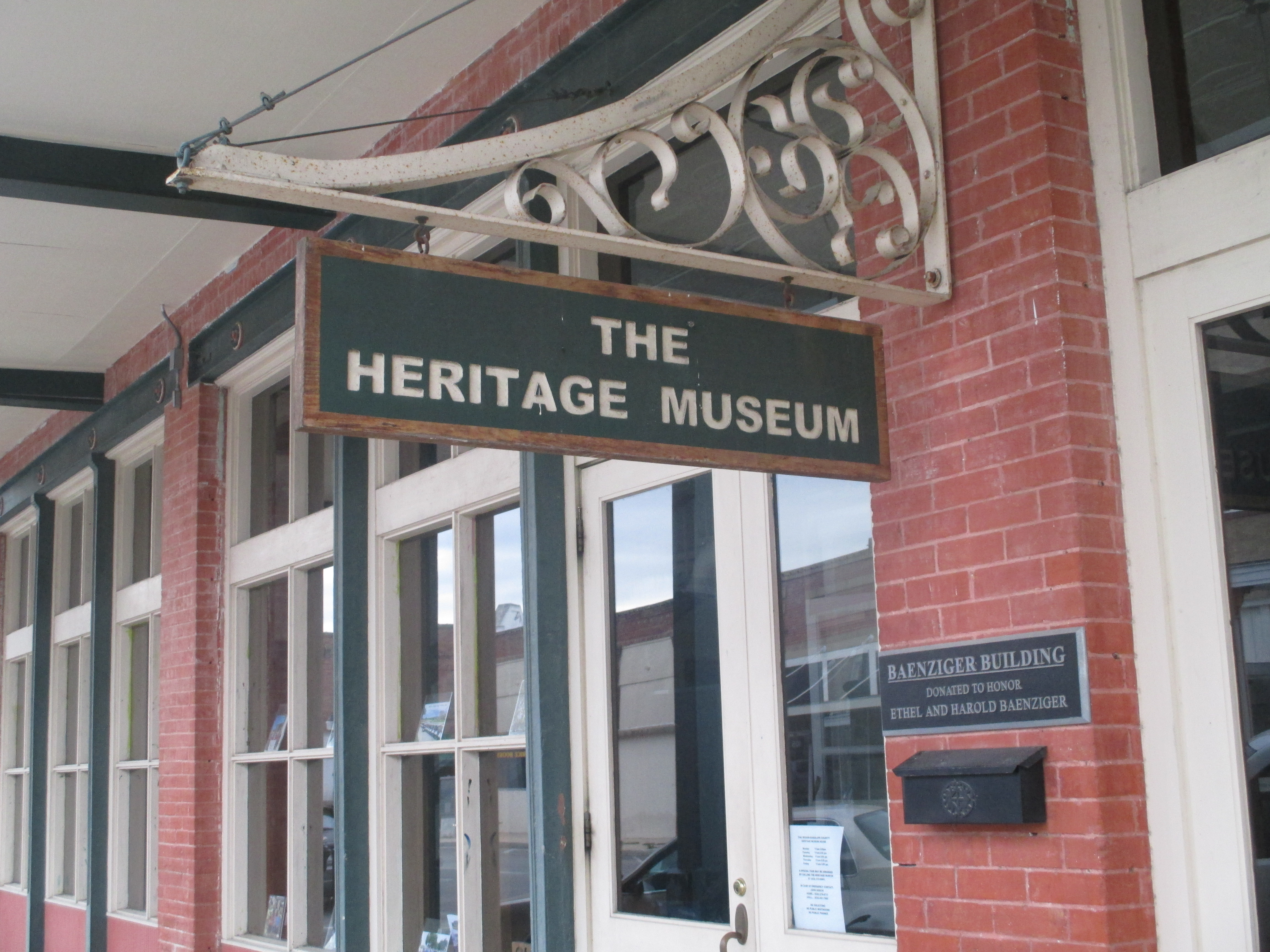 I took photo of Heritage Museum exterior in Seguin, TX, with Canon camera.